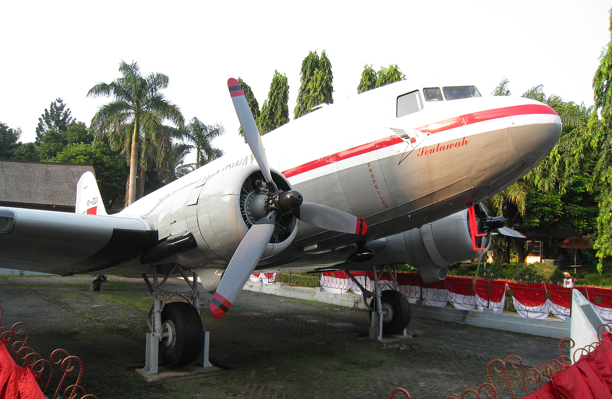 Douglas DC-3 Seulawah Indonesian Airways RI-001. The first Indonesian aircraft, donated by Acehnese people in 1949. Now the historic airplane is in display at Aceh pavilion, Taman Mini Indonesia Indah.